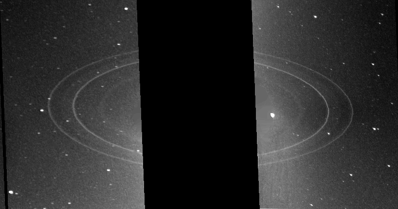 This pair of Voyager 2 images (FDS 11446.21 and 11448.10), two 591-s exposures obtained through the clear filter of the wide angle camera, show the full ring system with the highest sensitivity. Visible in this figure are the bright, narrow N53 and N63 rings, the diffuse N42 ring, and (faintly) the plateau outside of the N53 ring (with its slight brightening near 57,500 km). This PNG version has been losslessly converted from the original NASA image and not otherwise modified. Selected fields from the FDS 11446.21 image data file: IMAGE_TIME = 1989-08-27T00:47:09Z EARTH_RECEIVED_TIME = 1989-08-27T04:53:34Z EXPOSURE_DURATION = 591.3598 NOTE = "LONG EXPOSURES FOR OUTBOUND RING MOSAIC" Selected fields from the FDS 11448.10 image data file: IMAGE_TIME = 1989-08-27T02:14:21Z EARTH_RECEIVED_TIME = 1989-08-27T06:20:47Z EXPOSURE_DURATION = 591.3598 NOTE = "LONG EXPOSURES FOR OUTBOUND RING MOSAIC"